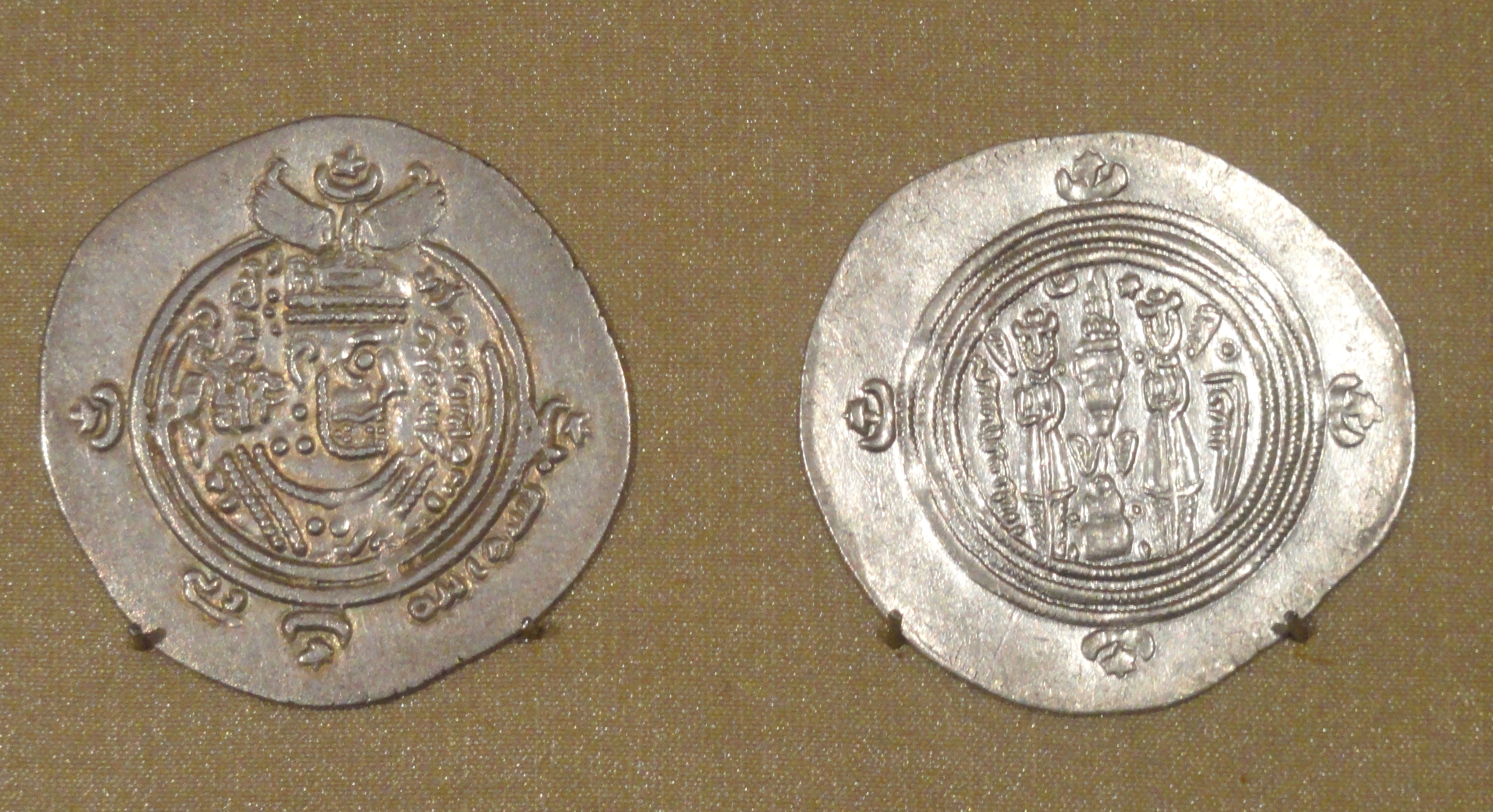 Exhibit in the Mount Holyoke College Art Museum, Mount Holyoke College, South Hadley, Massachusetts, USA. This artwork is old enough so that it is in the public domain.